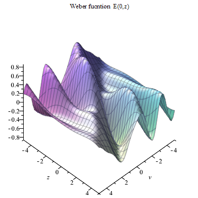 Weber function 3D Maple plot